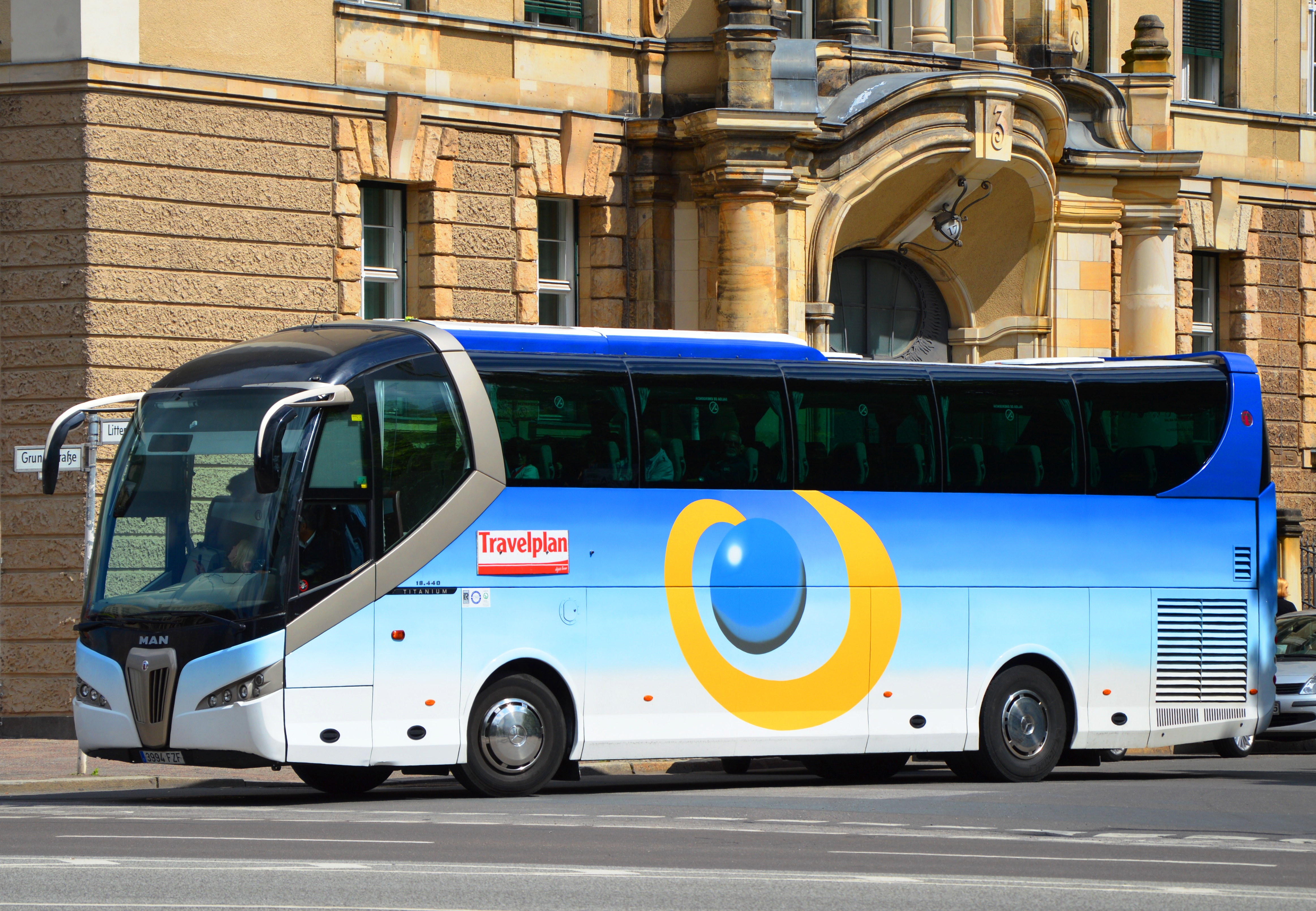 Noge Titanium coach on MAN 18.440 chassis. Photo taken in 2013 near the building complex of Amtsgericht (Local Court) I and Landgericht (Regional Court) I on Littenstraße, corner of Grunerstraße in Berlin-Mitte.